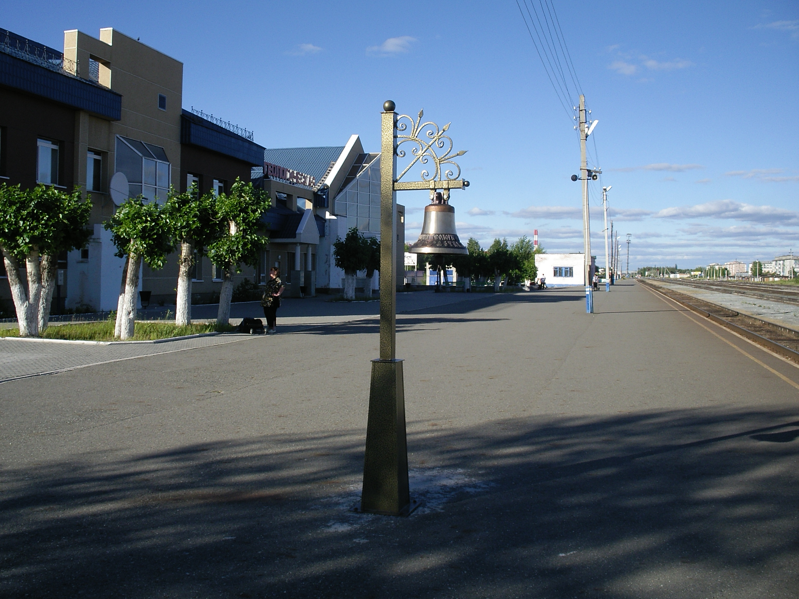 Geologicheskaya train station (Yugorsk)